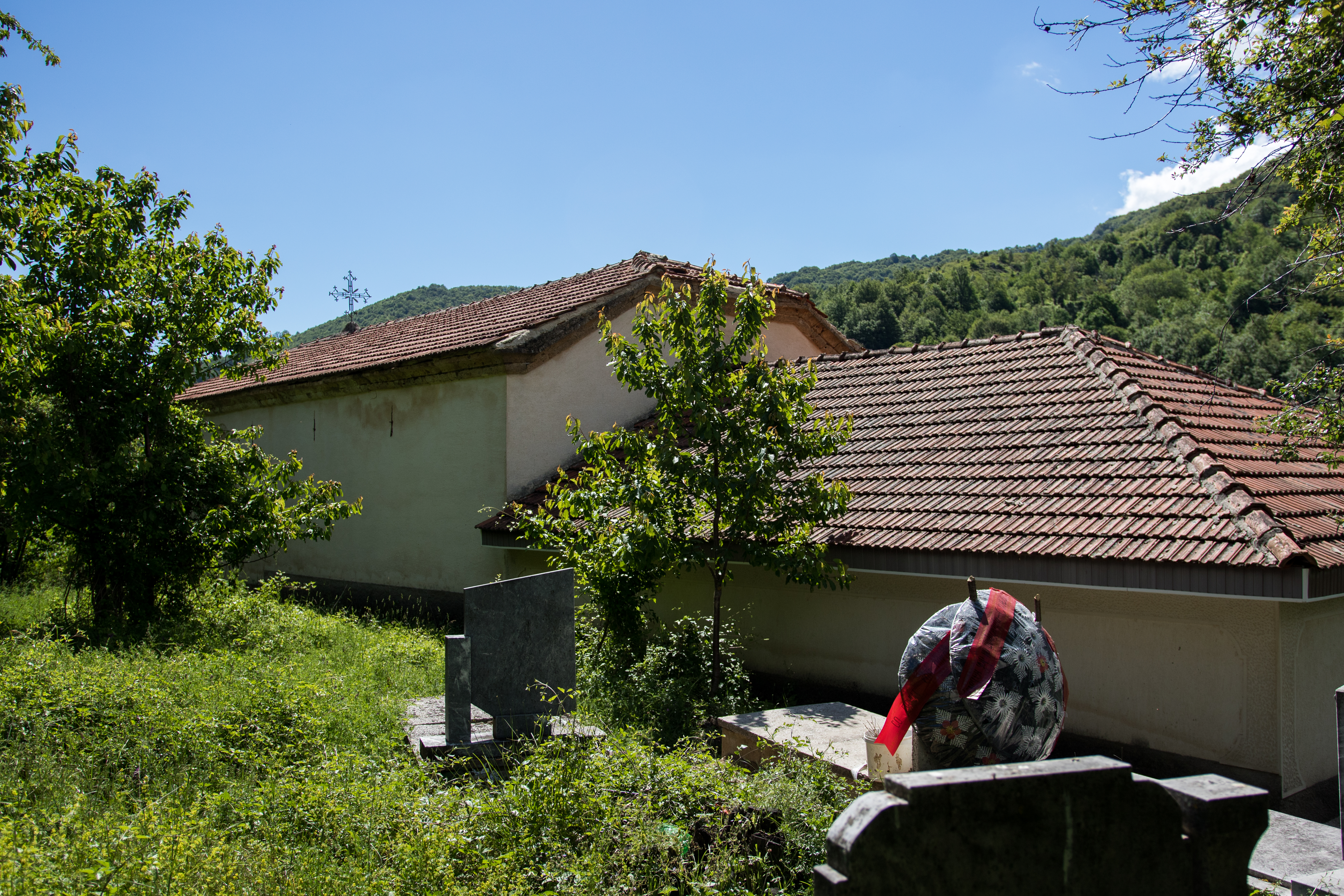 View of the St. Nicholas Church in the village Golemo Ilino